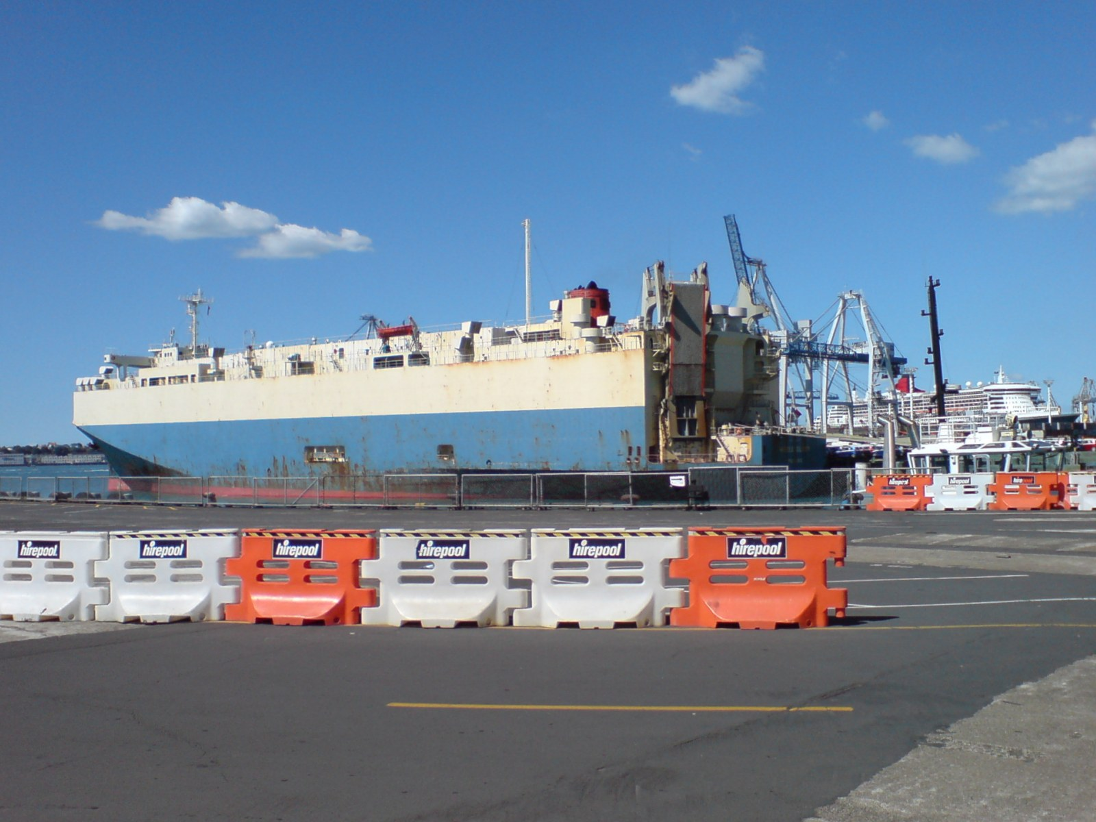 A roll-on/roll-off ship in the Port of Auckland, Auckland City, New Zealand, at Captains Cook Wharf. This ship is possibly used for importing used cars from Japan (a major source of New Zealand's vehicle fleet). In the background, the Queen Mary 2 is berthed at Jellicoe Wharf, due to being too big for the cruise ship terminal at Princes Wharf.